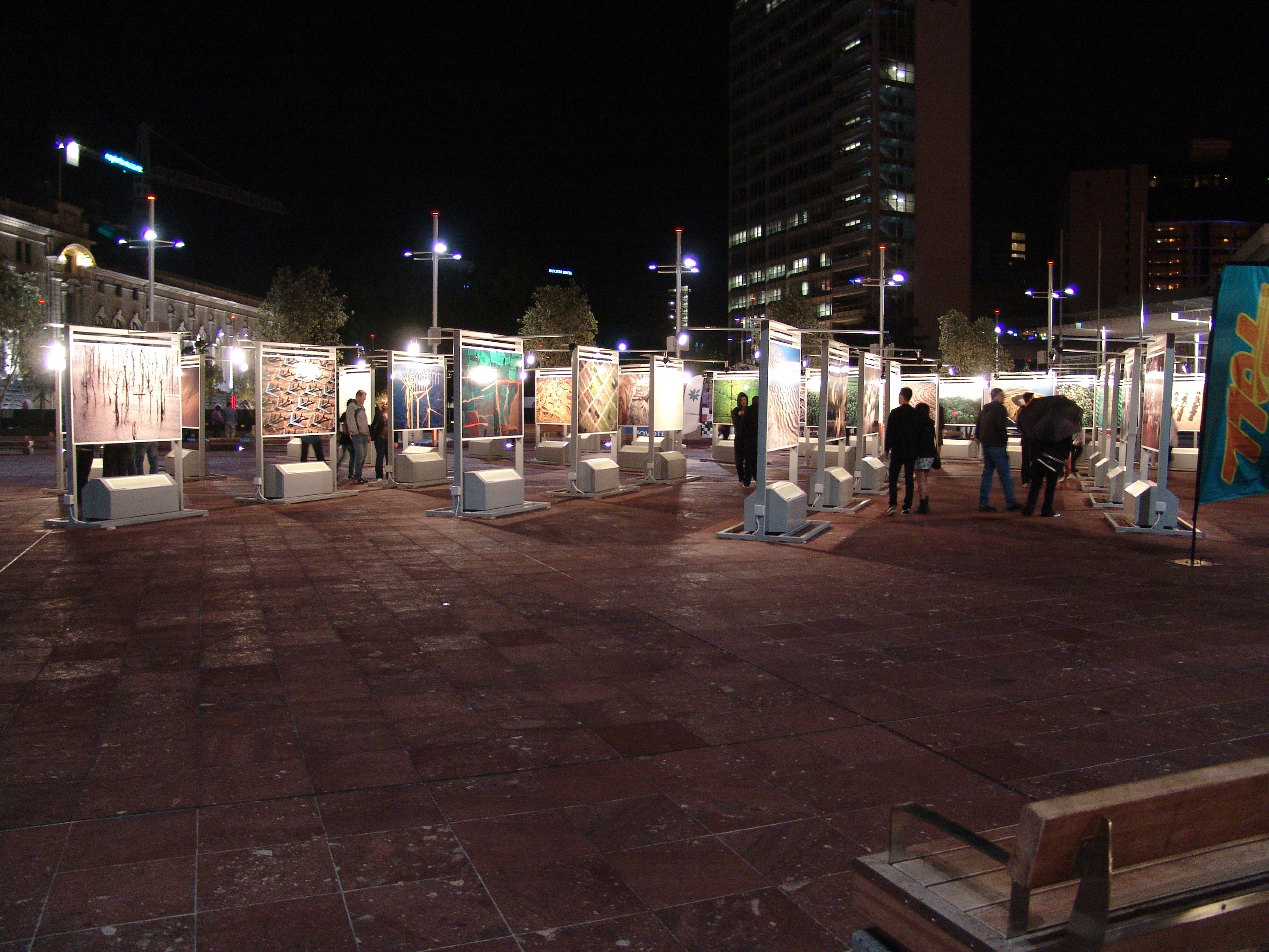 Art Installation - Aotea Square - 01